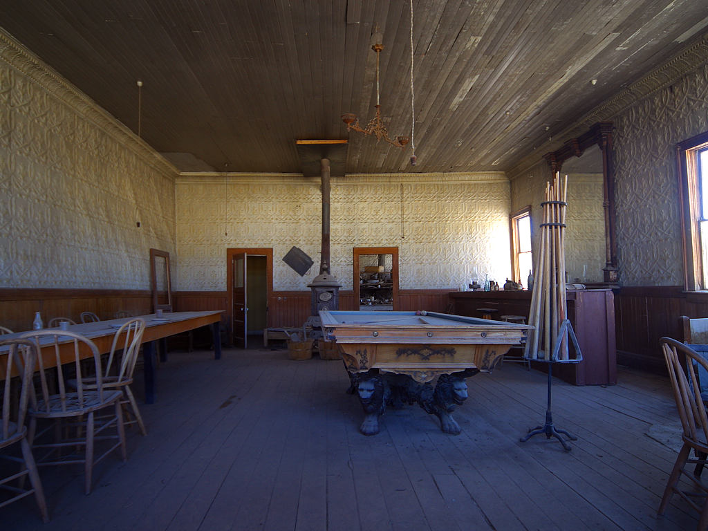 Interior of saloon in Bodie, California